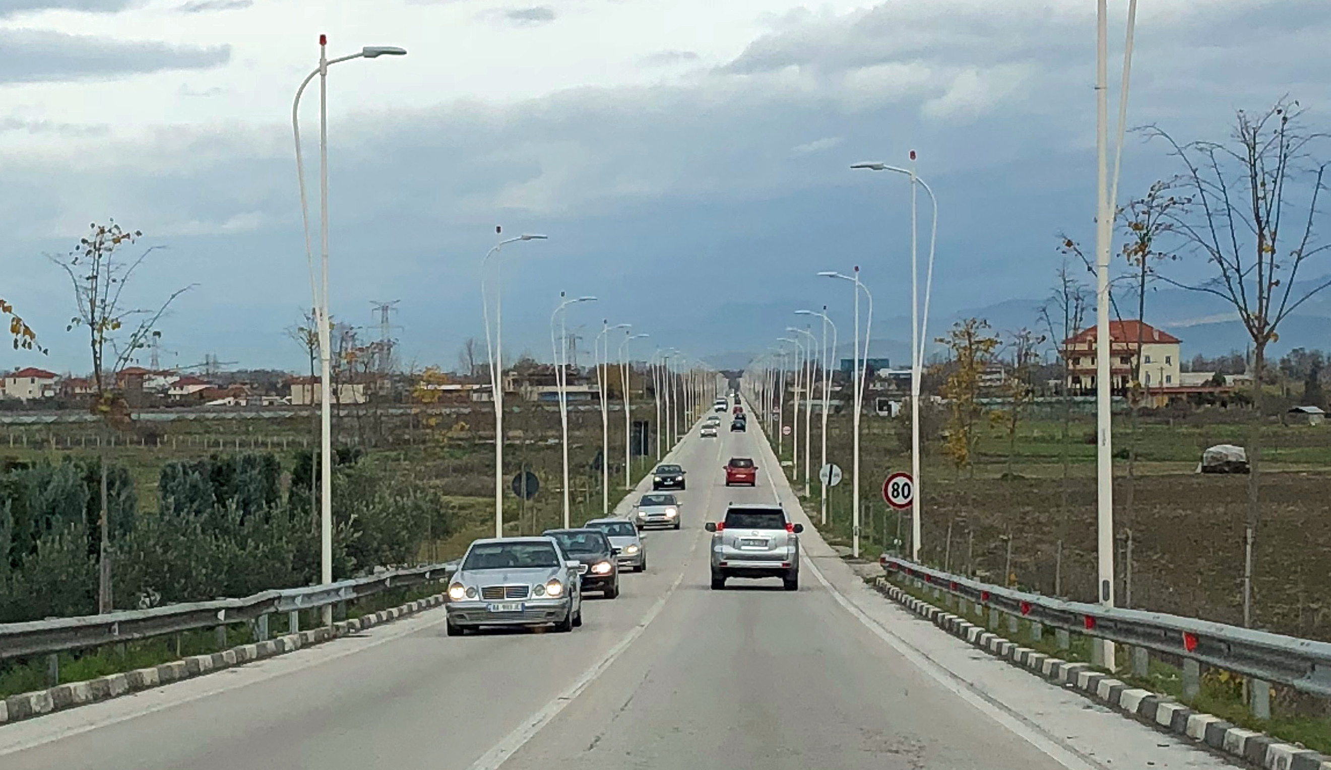 Road leading to the airport of Tirana